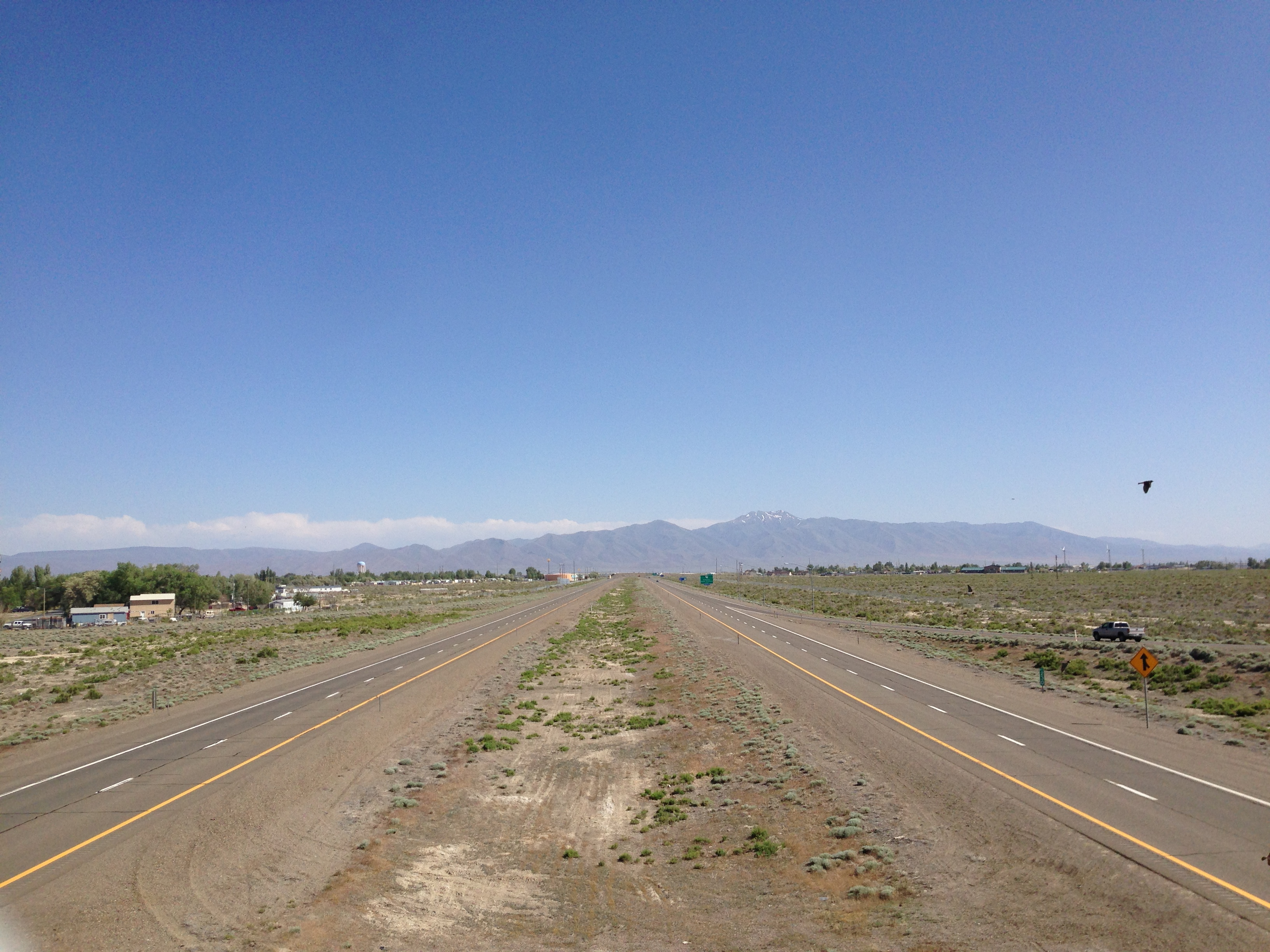 View east along Interstate 80 from the Exit 229 overpass in Battle Mountain, Nevada